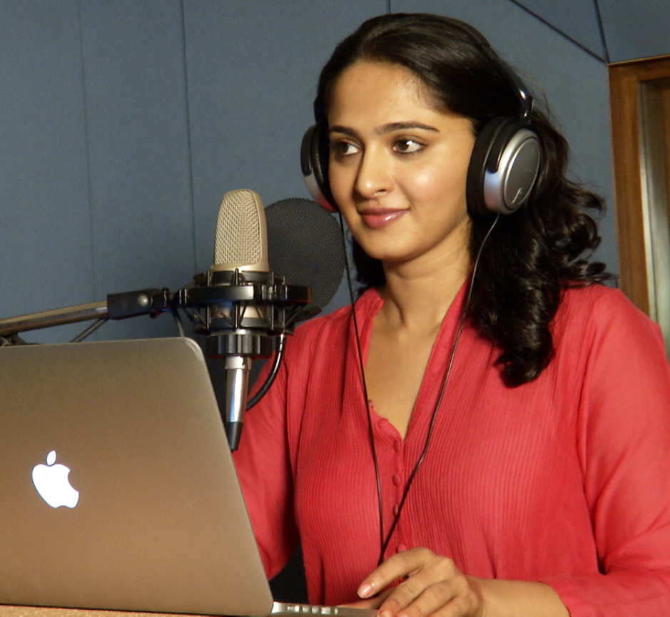 Anushka Shetty records her voice for the TeachAIDS animations at Annapurna Studios in Hyderabad, Andhra Pradesh. She has donated her voice for the Tamil and Telugu language versions of the TeachAIDS materials.